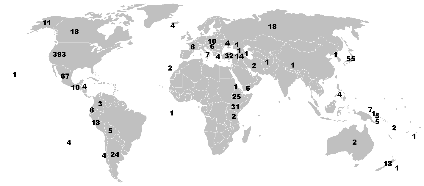 Number of Obsidian Sources by Country. Counted from International Association for Obsidian Studies (IAOS) Obsidian Source Catalog. Map image is derived from File:BlankMap-World-v2.png.